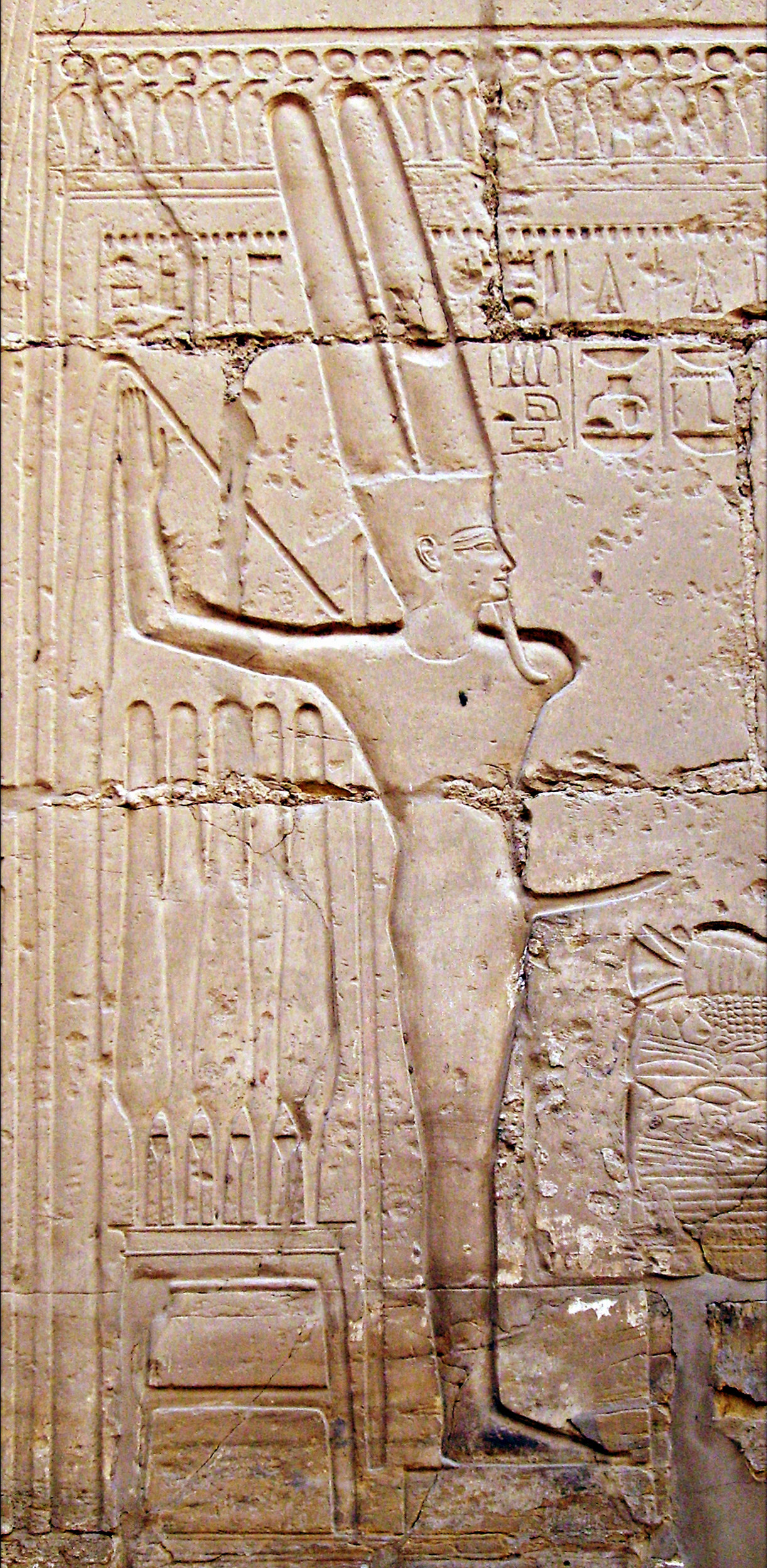 Min, God of Fertility, Karnak Temple